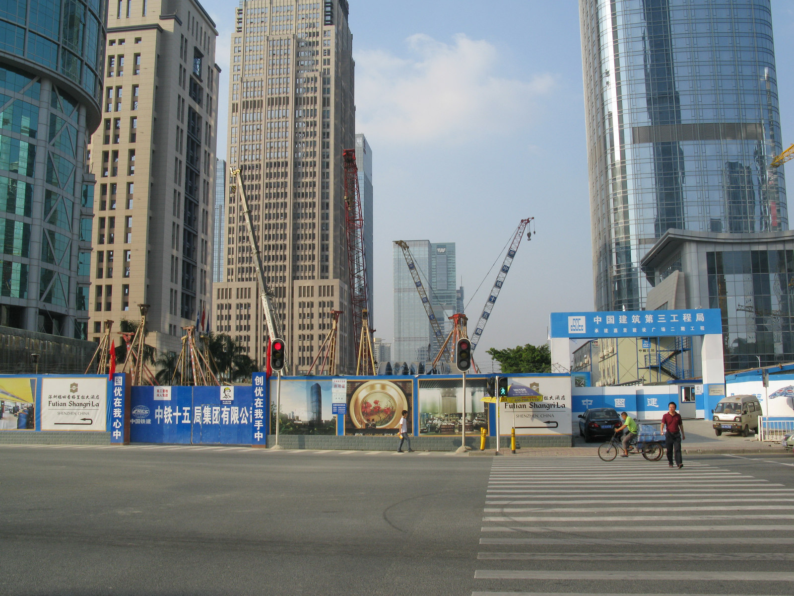 South Entrance of Futian Station Construction Site, Guangzhou-Shenzhen-Hong Kong Express Rail Link